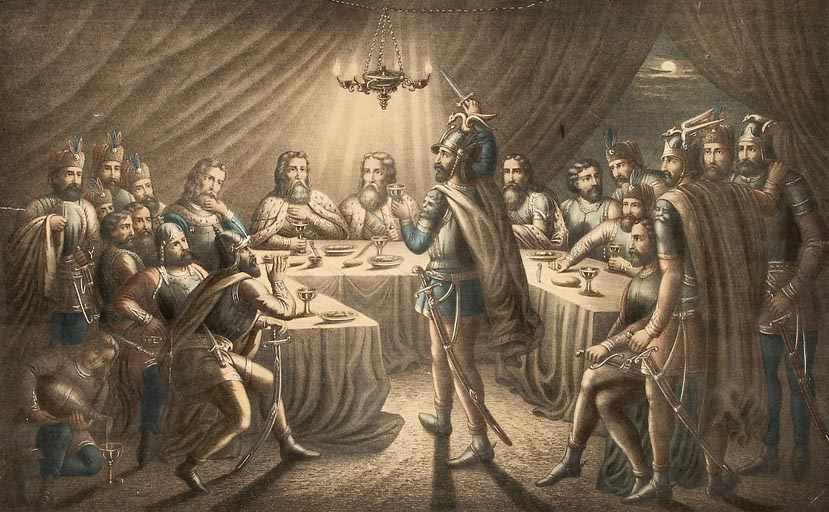 The Prince's Supper (Kneževa večera), Lithograph by Adam Stefanović, 1871. Based on an epic poem.